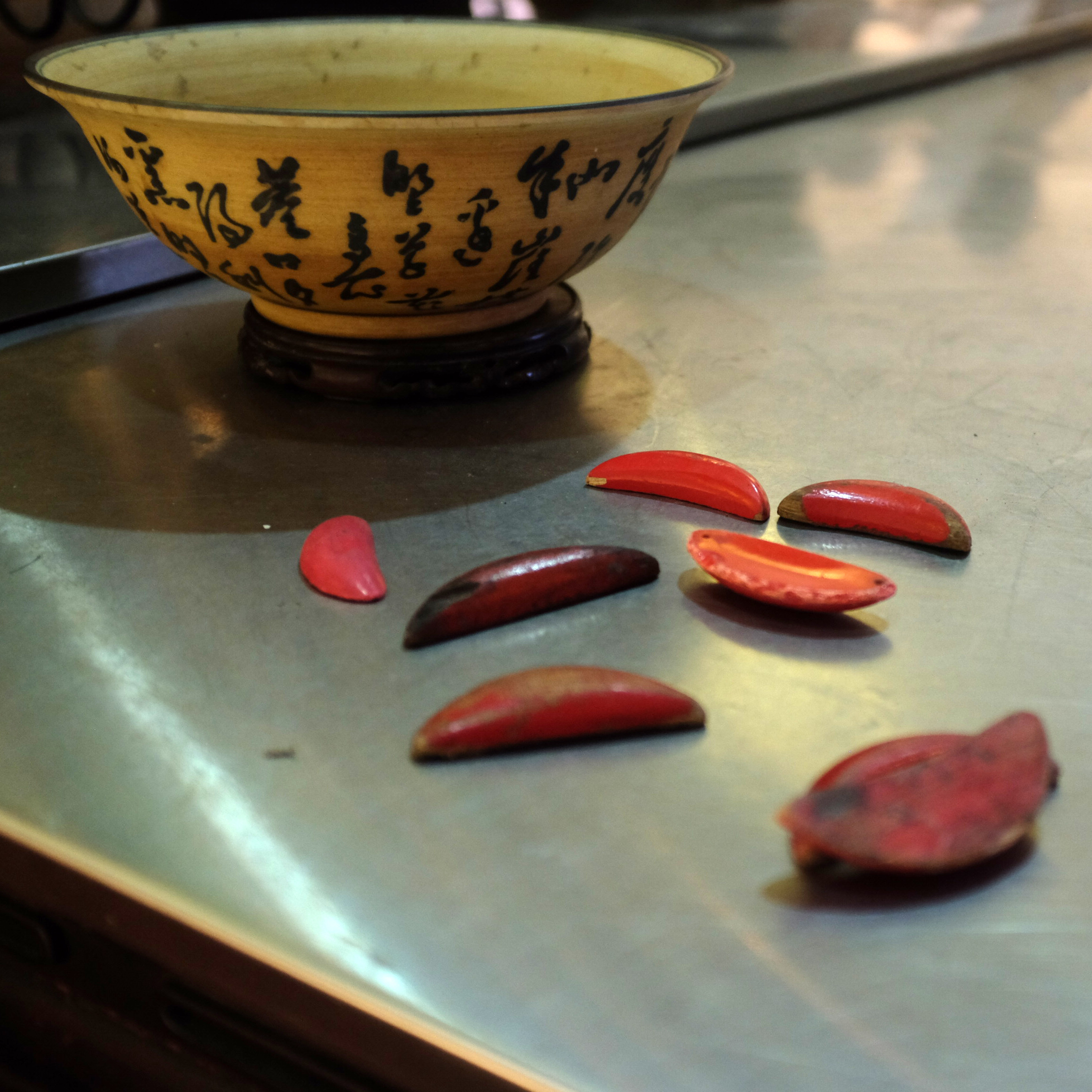 yueh hai ching temple / 粤海清庙